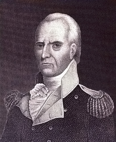 History of Manchester, Formerly Derryfield, in New Hampshire (1851)